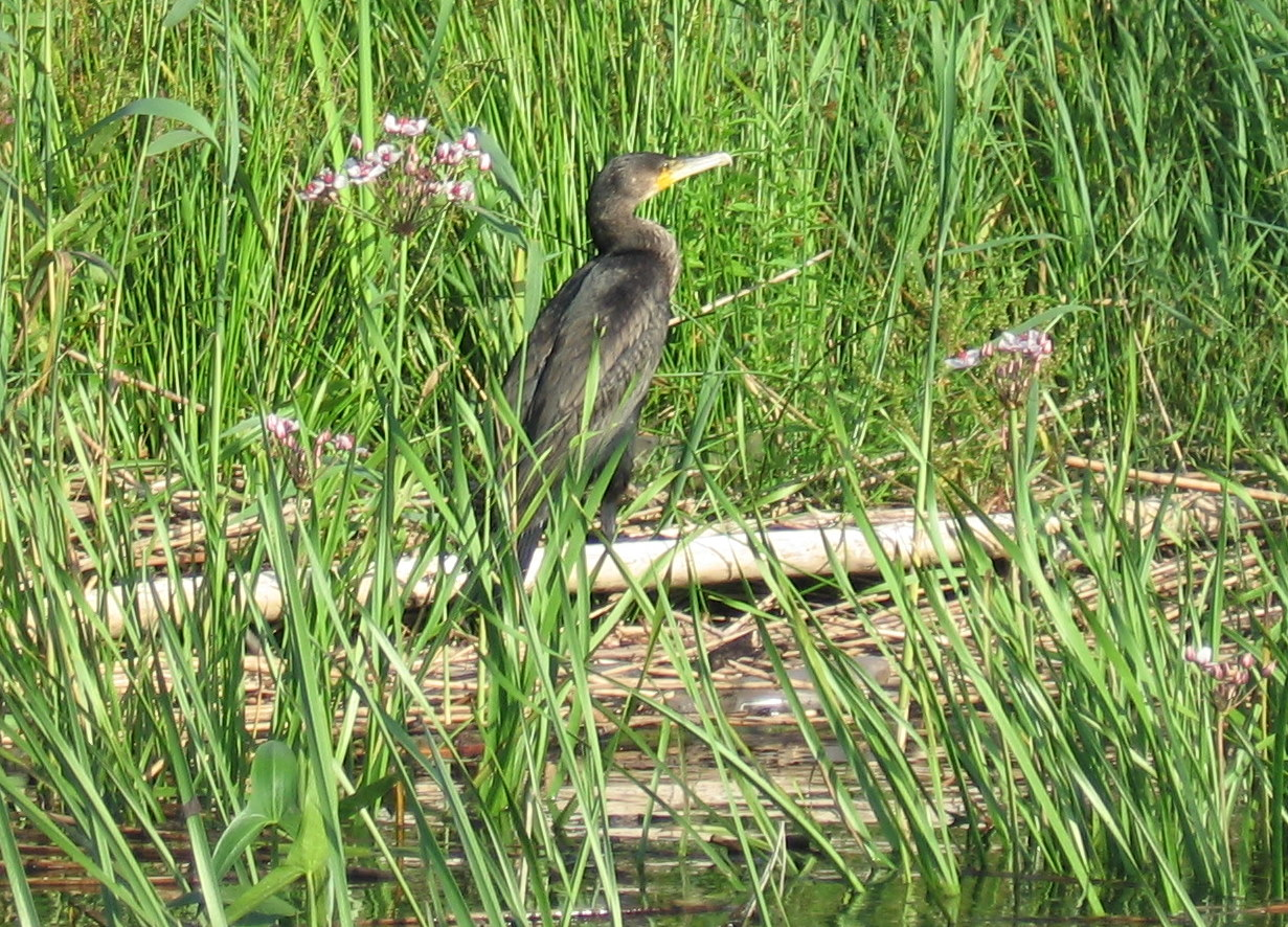 Great cormorant on the banks of the Rega river, Poland